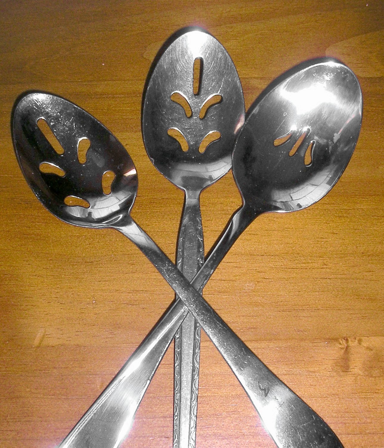 Three examples of a typical steel slotted spoon, as used on a dinner table. Taken in June 2008